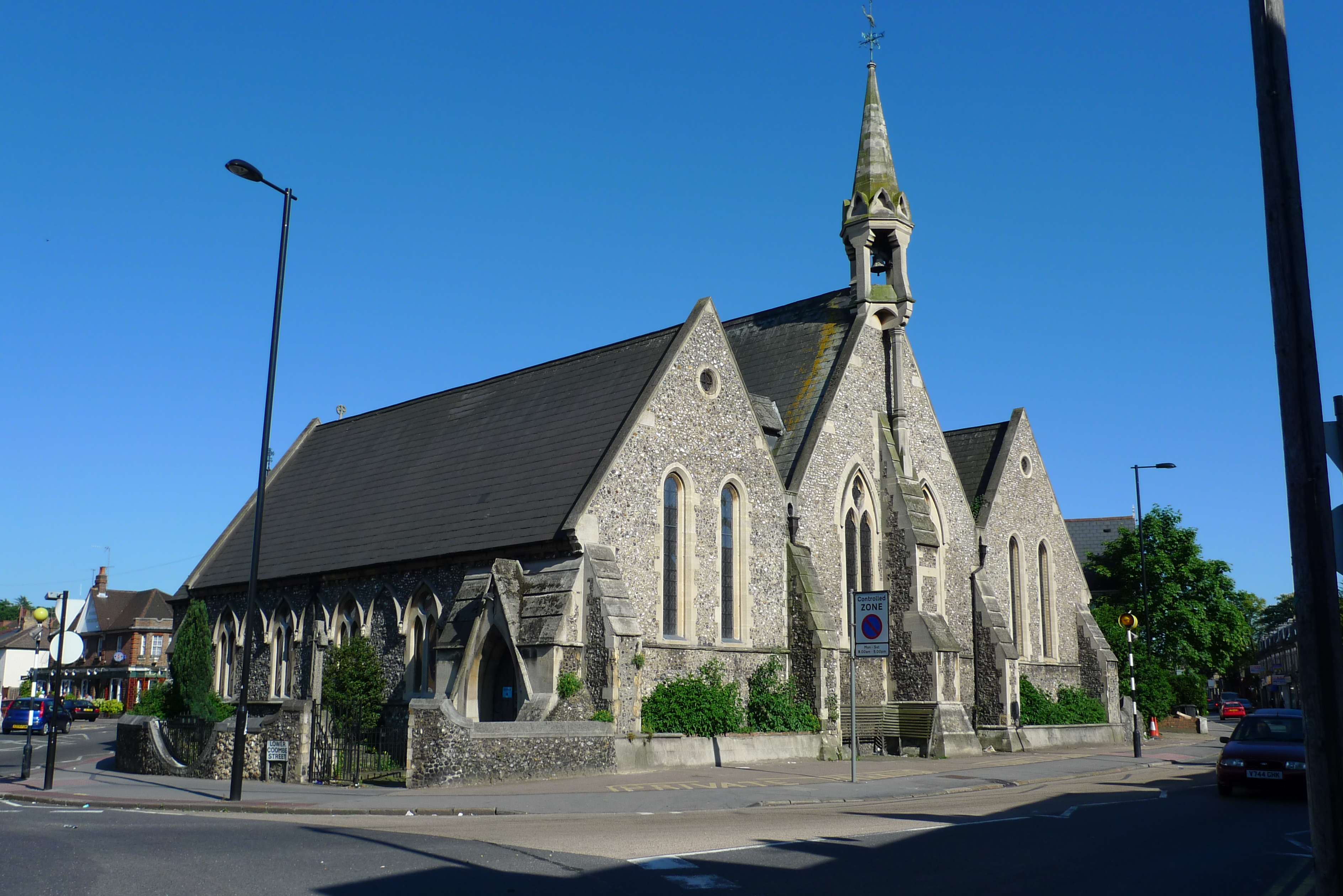 St Andrew's, Southbridge Road, Croydon. St Andrews is a Grade II listed church. St Andrews, Croydon official website Croydon, St Andrew at the Anglican Diocese of Southwark Church Of St Andrew at English Heritage